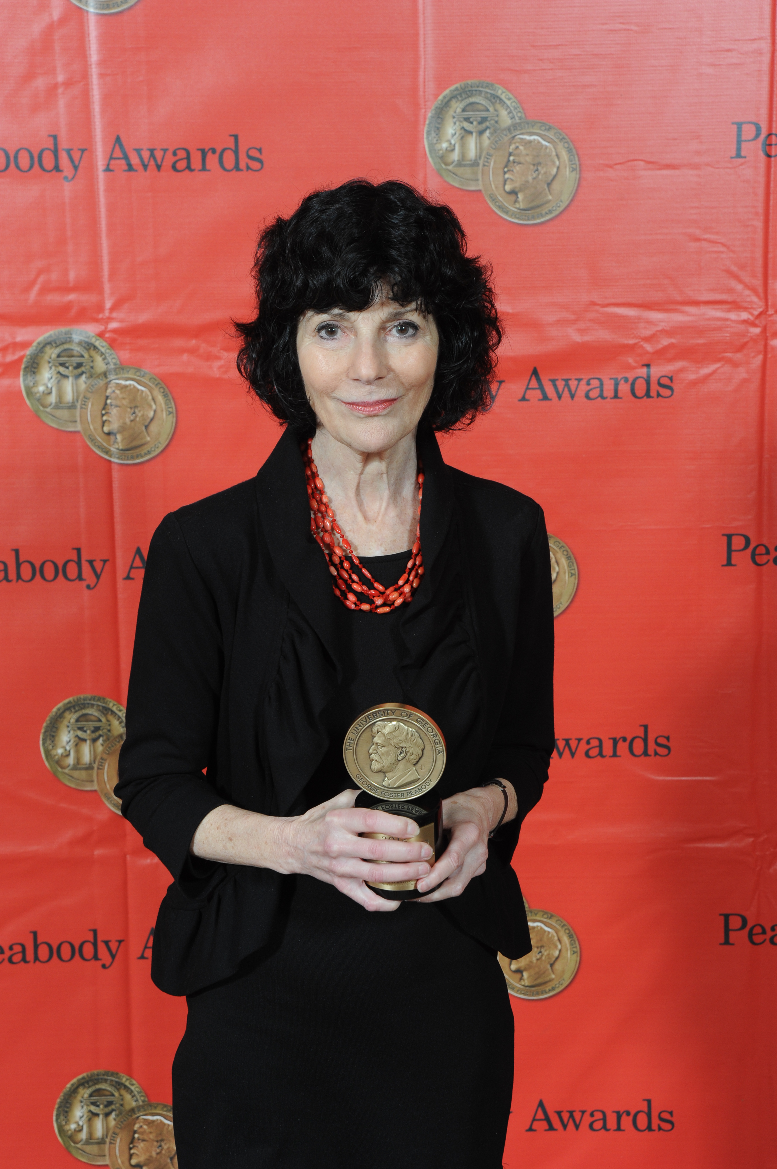 PHOTO CREDIT: ANDERS KRUSBERG / PEABODY AWARDS 72nd Annual Peabody Awards Luncheon Waldorf-Astoria Hotel May 20, 2013